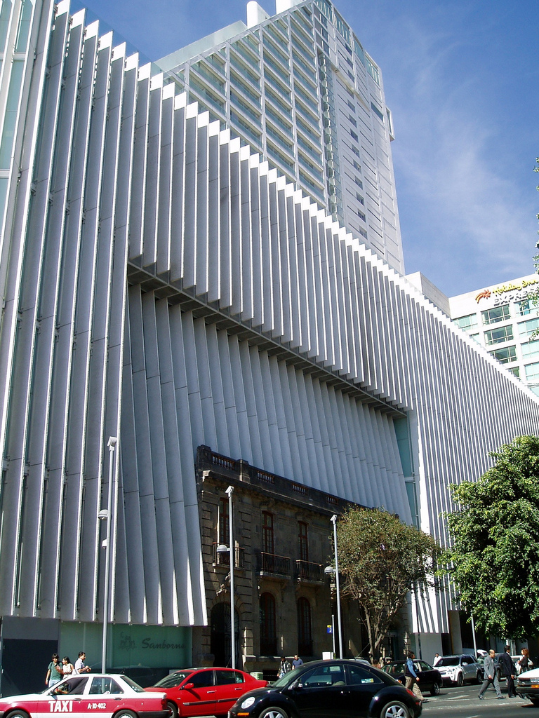 Multistory Sanborns department store in Mexico City (corner of Insurgentes Sur and Nápoles, colonia Juárez), with the facade of a 19th century home being used as an entrance area